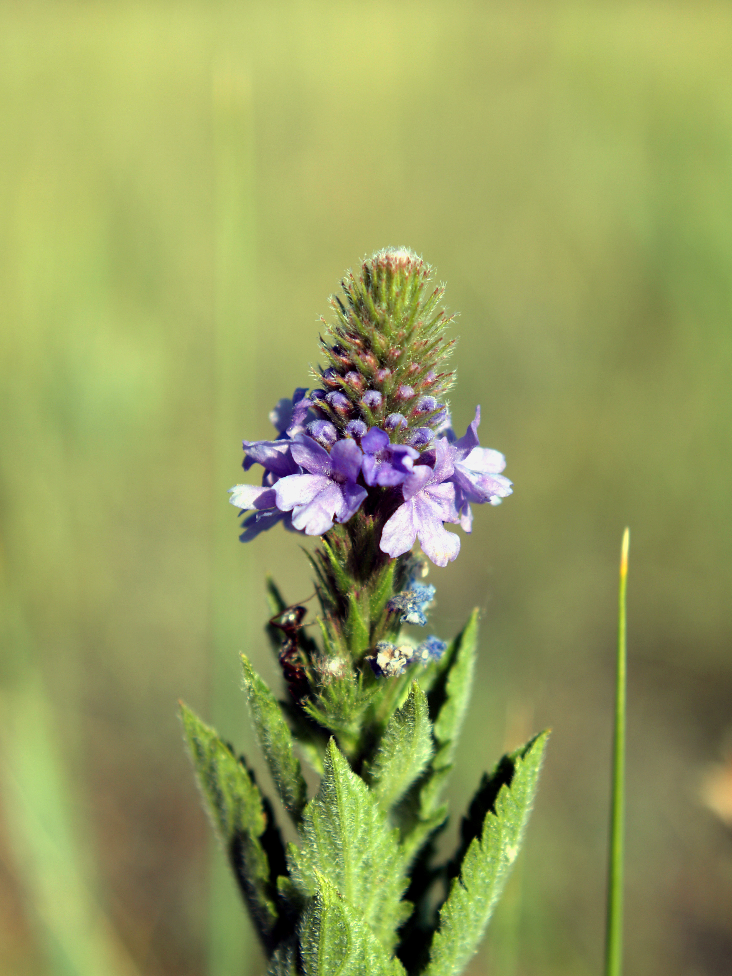 Verbena stricta at Wind Cave National Park, South Dakota, USA